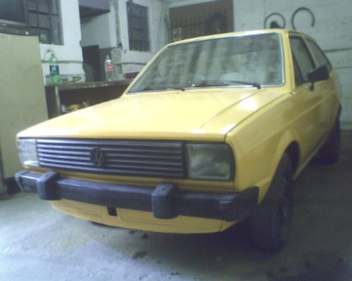 Volkswagen Gol 1981, with a Type 1 1300 boxer engine monted in the front. Made by Volkswagen do Brasil.